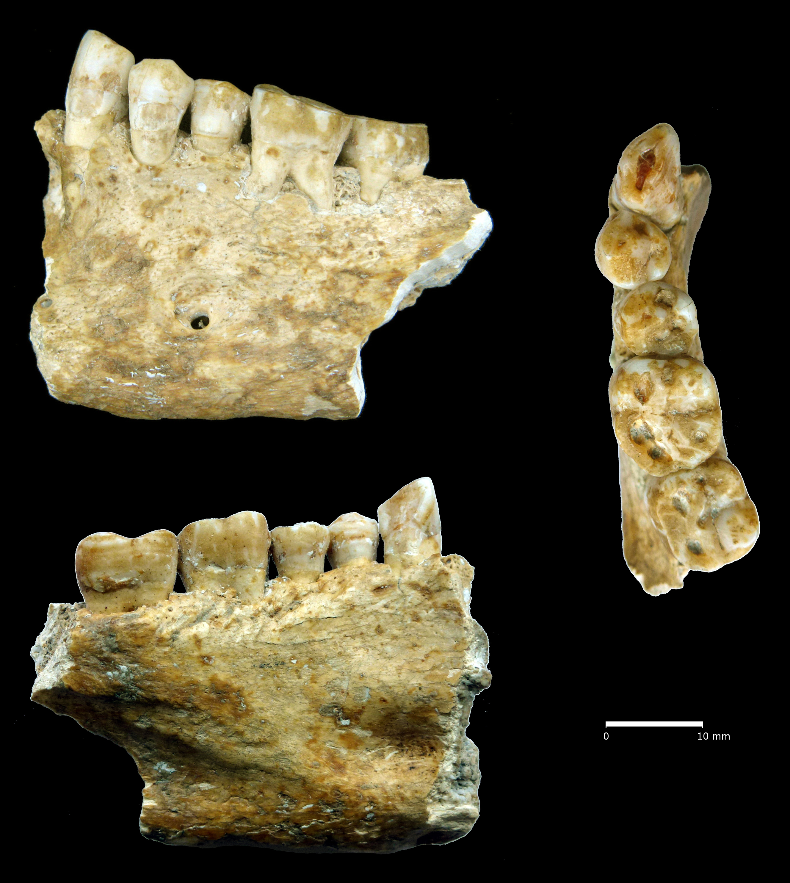 The Lonche jaw from a karstic cave of southern Slovenia. Scale bar, 10 mm.